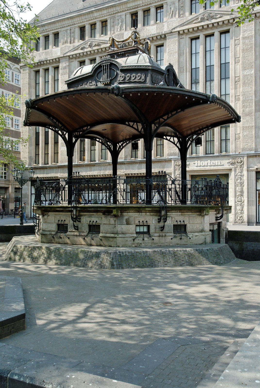 Music Pavillon in Düsseldorf-Stadtmitte, Germany